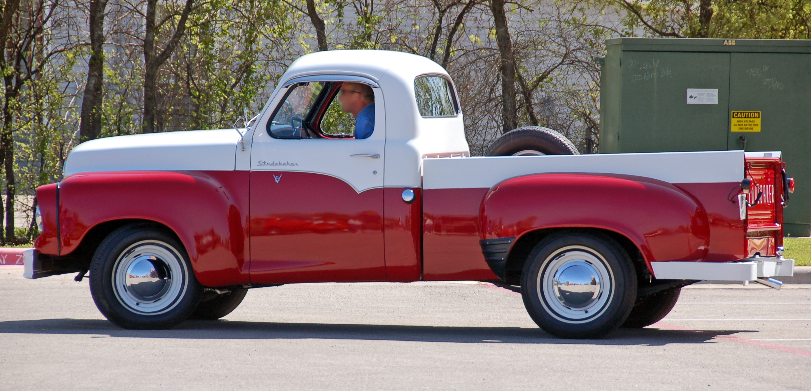 1959 Studebaker Deluxe pickup V8 on the 112 inch wheelbase; for this year the "Transtar" name was dropped although very few other changes took place. 4E2 or 4E7 depending on whether the 259 or 289 was fitted. Great list of all Studebaker truck designations here.